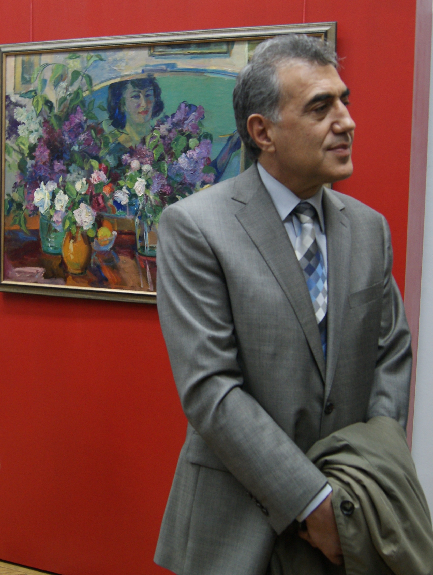 Smbat Lputian at the 100th Birth Anniversary Exhibition of Arpenik Nalbandyan at National Gallery of Armenia